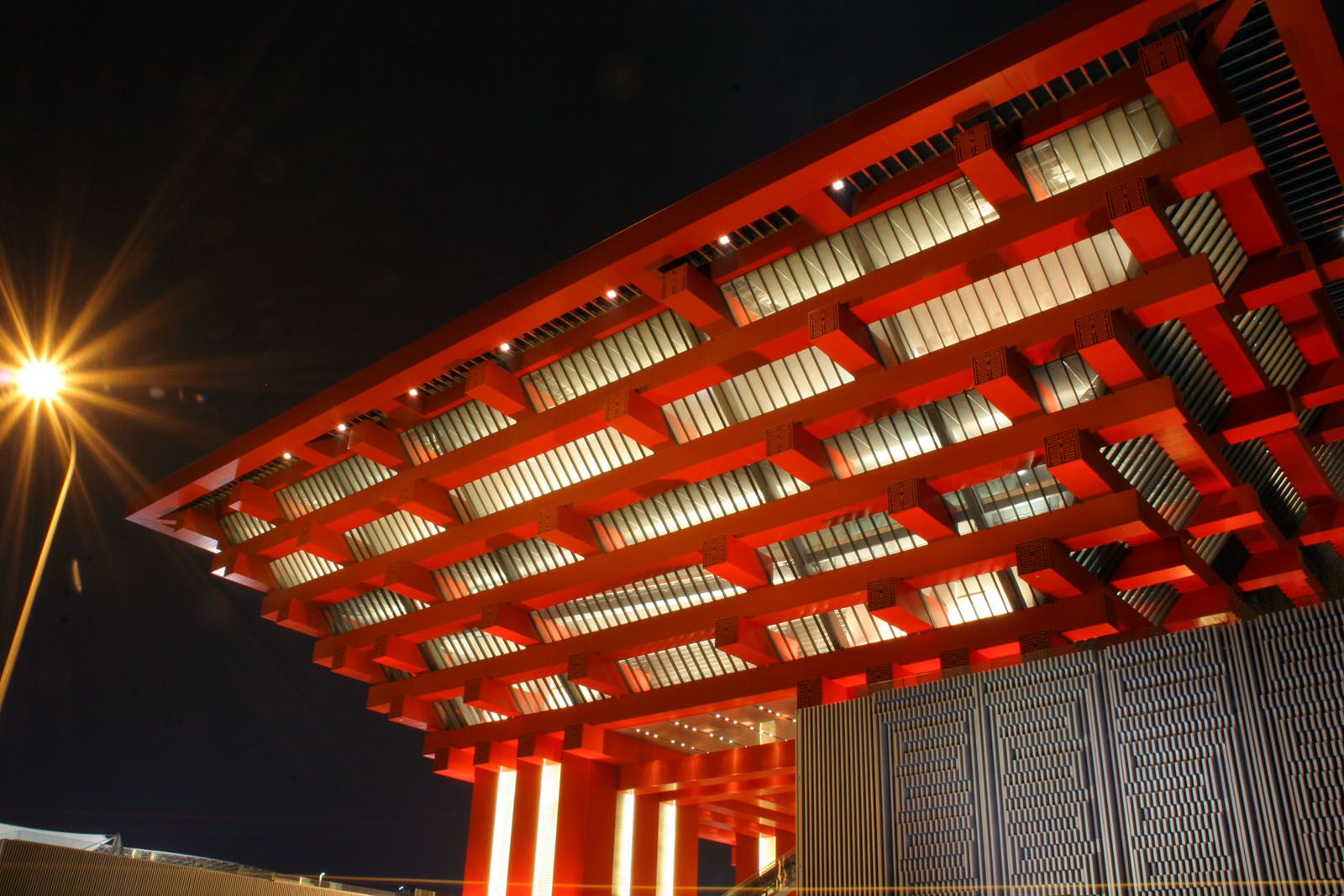 Expo 2010 China Pavilion in the nighttime